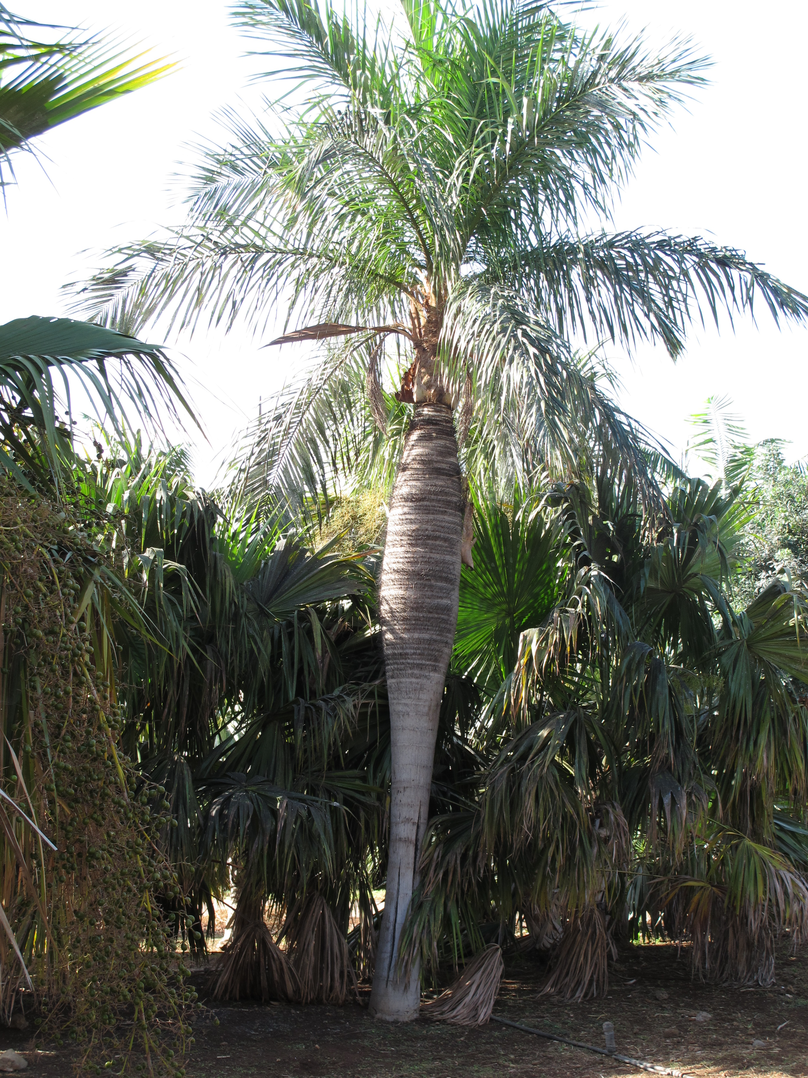 Palmetum of Santa Cruz de Tenerife, Canary Islands, Spain.